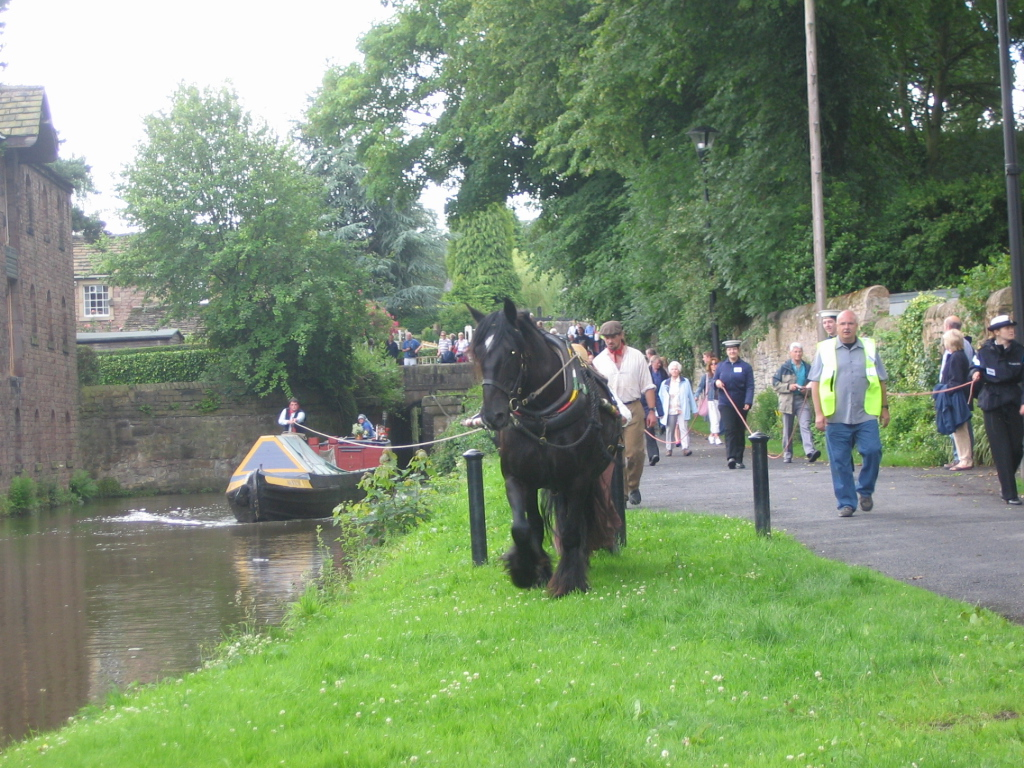 Boathorse Queenie, Peak forest Canal, Marple, England